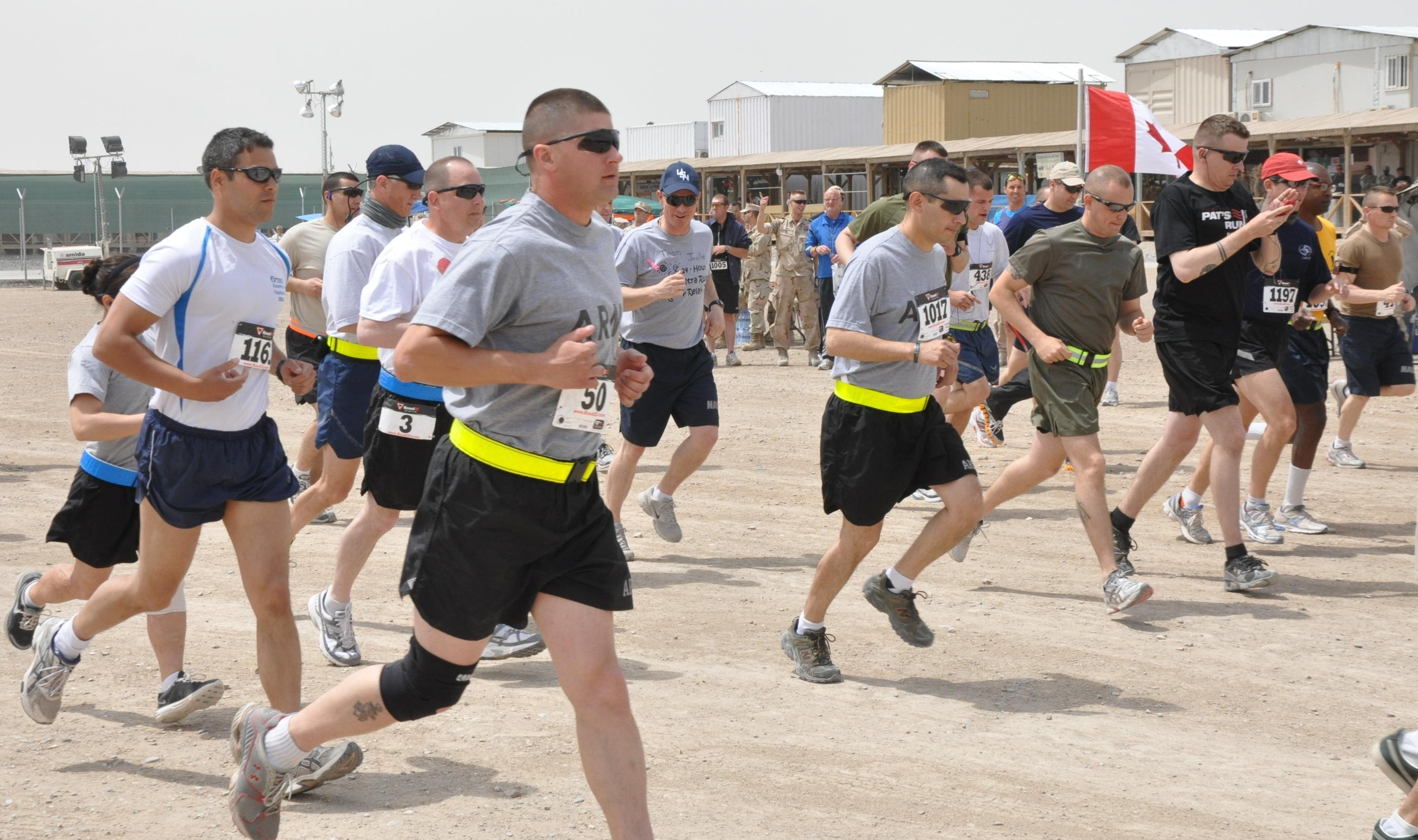 Service members and civilians stationed at Kandahar Airfield, Afghanistan, start the 24-Hour Run for Charity April 16. The event is the first of its kind at KAF and will feature a mix of teams and individuals striving to complete various distances throughout the two-day event. Proceeds will benefit individually chosen charities.